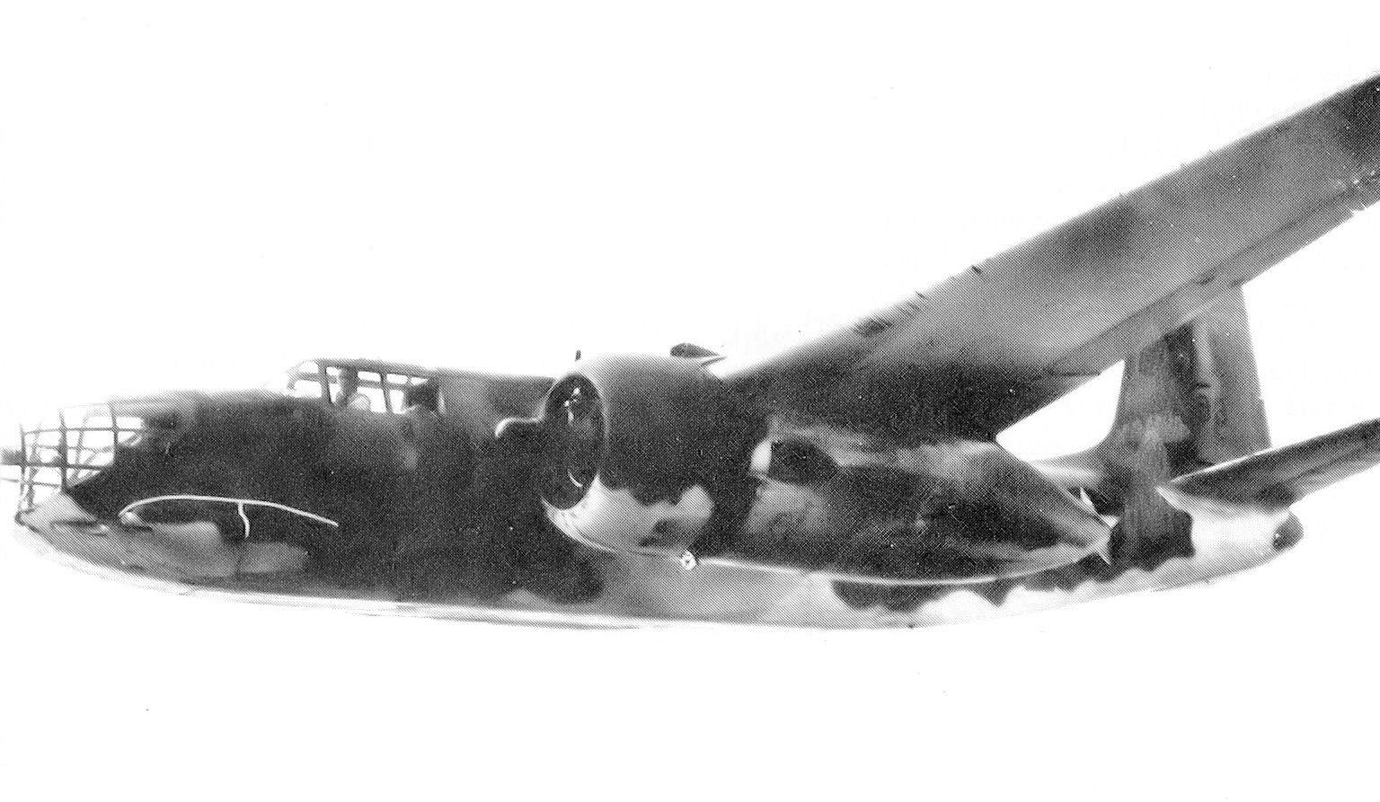 59th Bombardment Squadron Douglas A-20A Havoc 40-0093